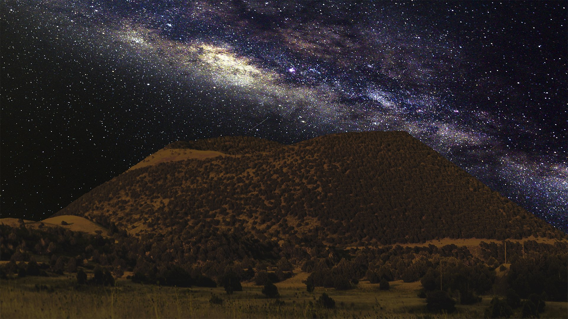 Capulin at nigh